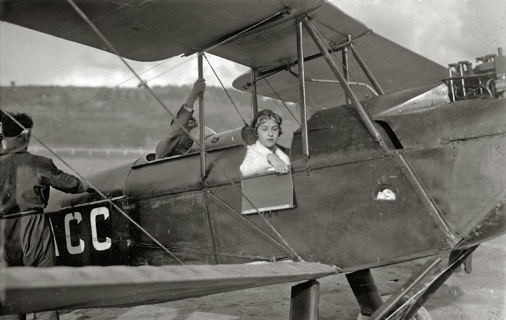 A De Havilland DH60-X Moth in Lasarte airfield, Spain, 1928. The aircraft's owner was RACE. The aircraft was registered the 29th March 1928 and was cancelled the 21st April 1931. It was also registered as EC-ACC. The pilot is Bernaldo de Quirós, the first female pilot in Spain.